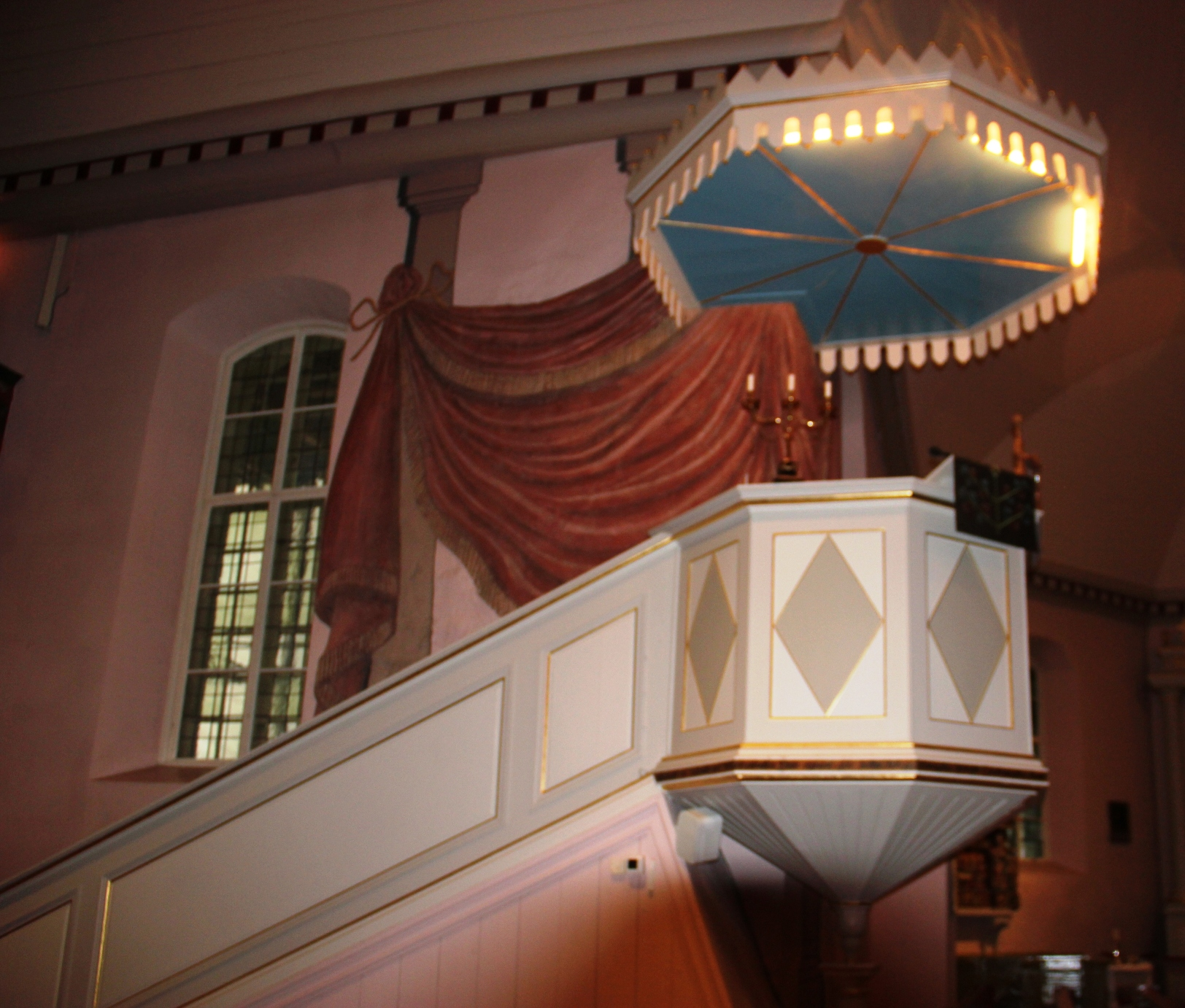 Pulpit of Halikko Church from early 19th century, note the painted curtain on the wall